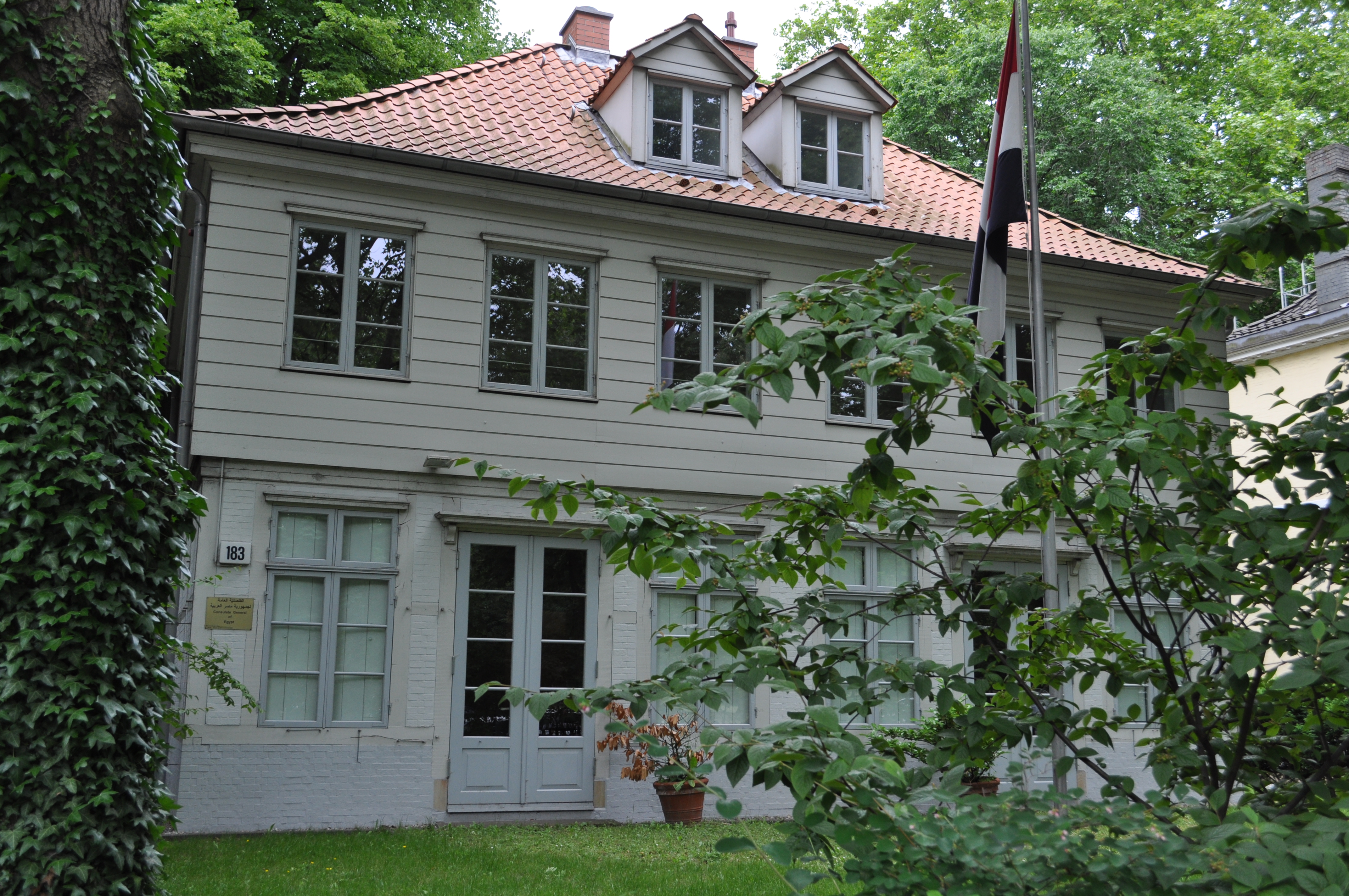 Haus Mittelweg 183 in Hamburg-Rotherbaum (Gartenhaus Fontanay). This is a photograph of an architectural monument.